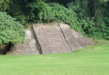 Archeologic zone of Cuyuxquihui